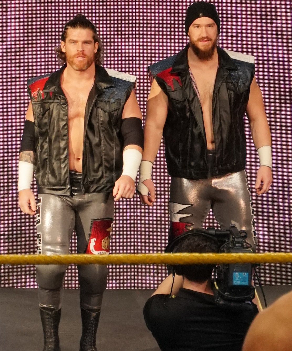 NOLA 2018 - WWE Axxess - Saturday - Nick Miller & Shane Thorne Vs Steve Cutler & Wesley Blake Nick Miller & Shane Thorne def. Steve Cutler & Wesley Blake ( Deux semaines a Nola pour la ville et pour WWE Wrestlemania XXXIV Two weeks Nola for the city and for WWE Wrestlemania XXXIV )